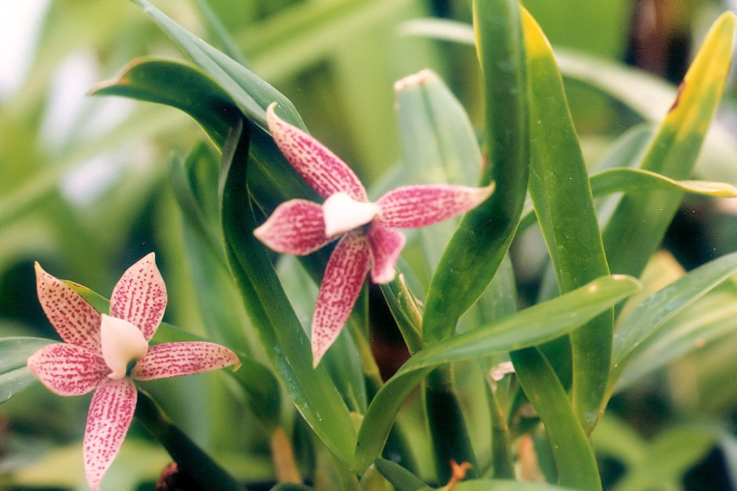 Prosthechea garciana